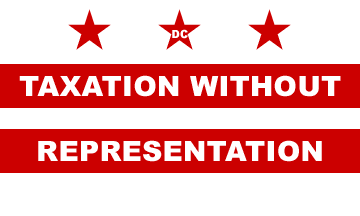 Flag from 2002 as protest